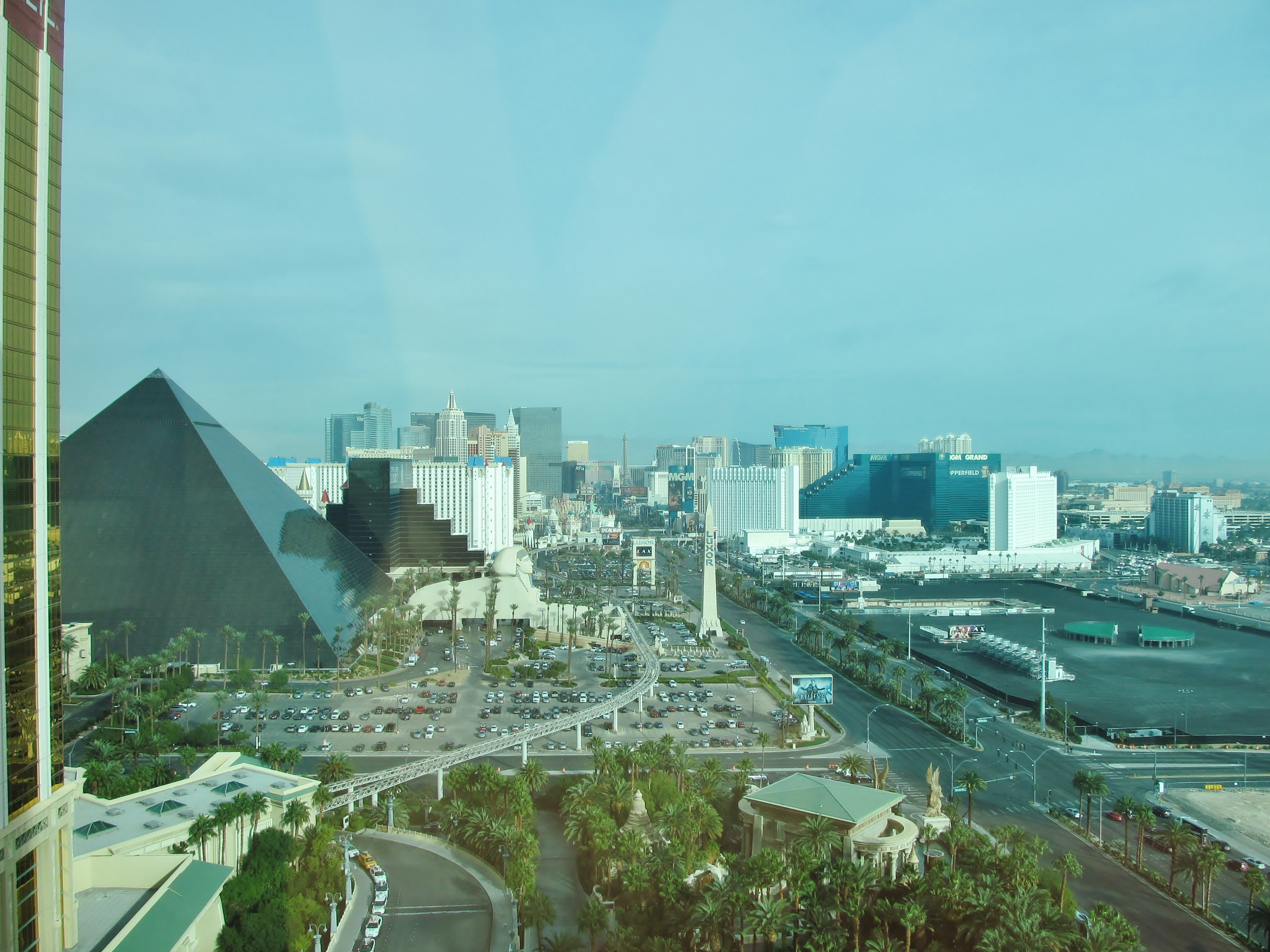 View from Mandalay Bay hotel